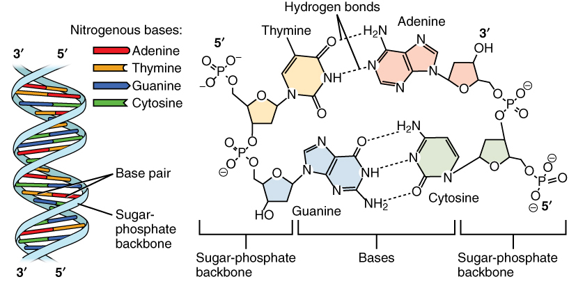 Illustration of the nucleotides in DNA.